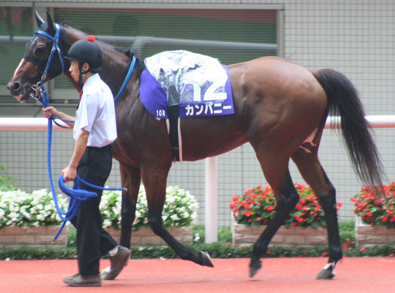 Company (horse, Hanshin Racecourse)